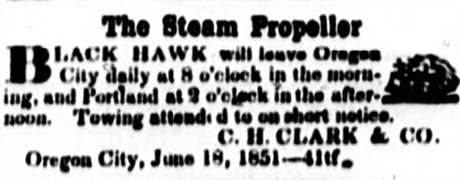 Advertisement for steam propeller Black Hawk, 1851